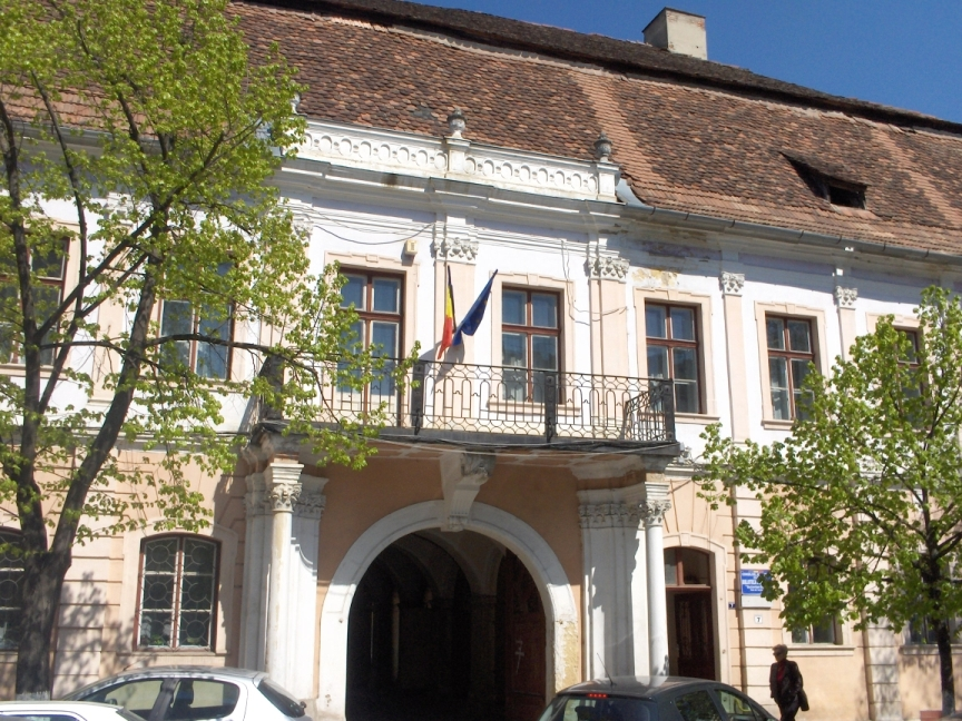 Teleki Palace, Cluj-Napoca